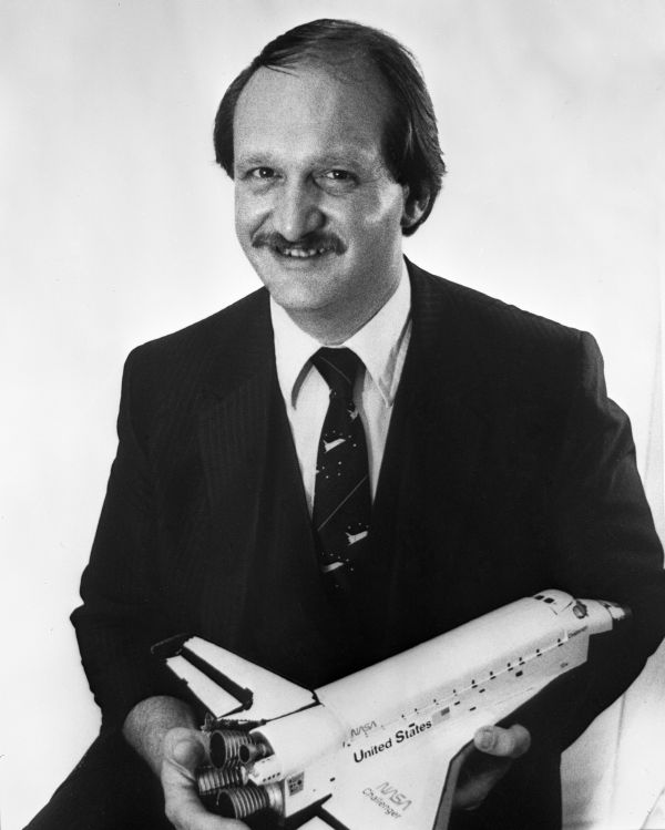 Portrait of Michael David Reynolds of Duncan U. Fletcher High School, ca 1986. Taken after Reynolds was awarded Florida Teacher of the Year.